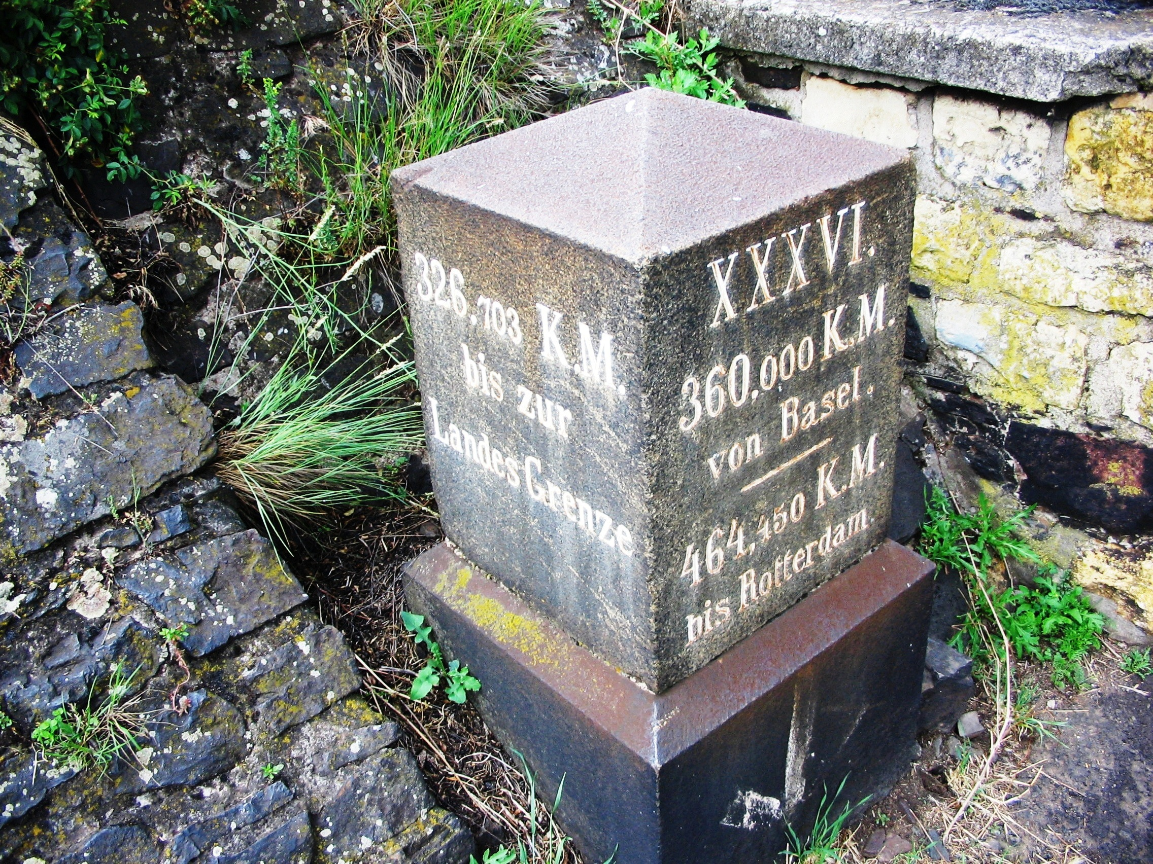 Myriametre marker 36 on the bank of the Rhine at Rüdesheim at the level of the restricted crossing of Bundesstraße 42. (Comma is the decimal point in German; the distances indicated are 360 km to Basel and 464.45 km to Rotterdam.)